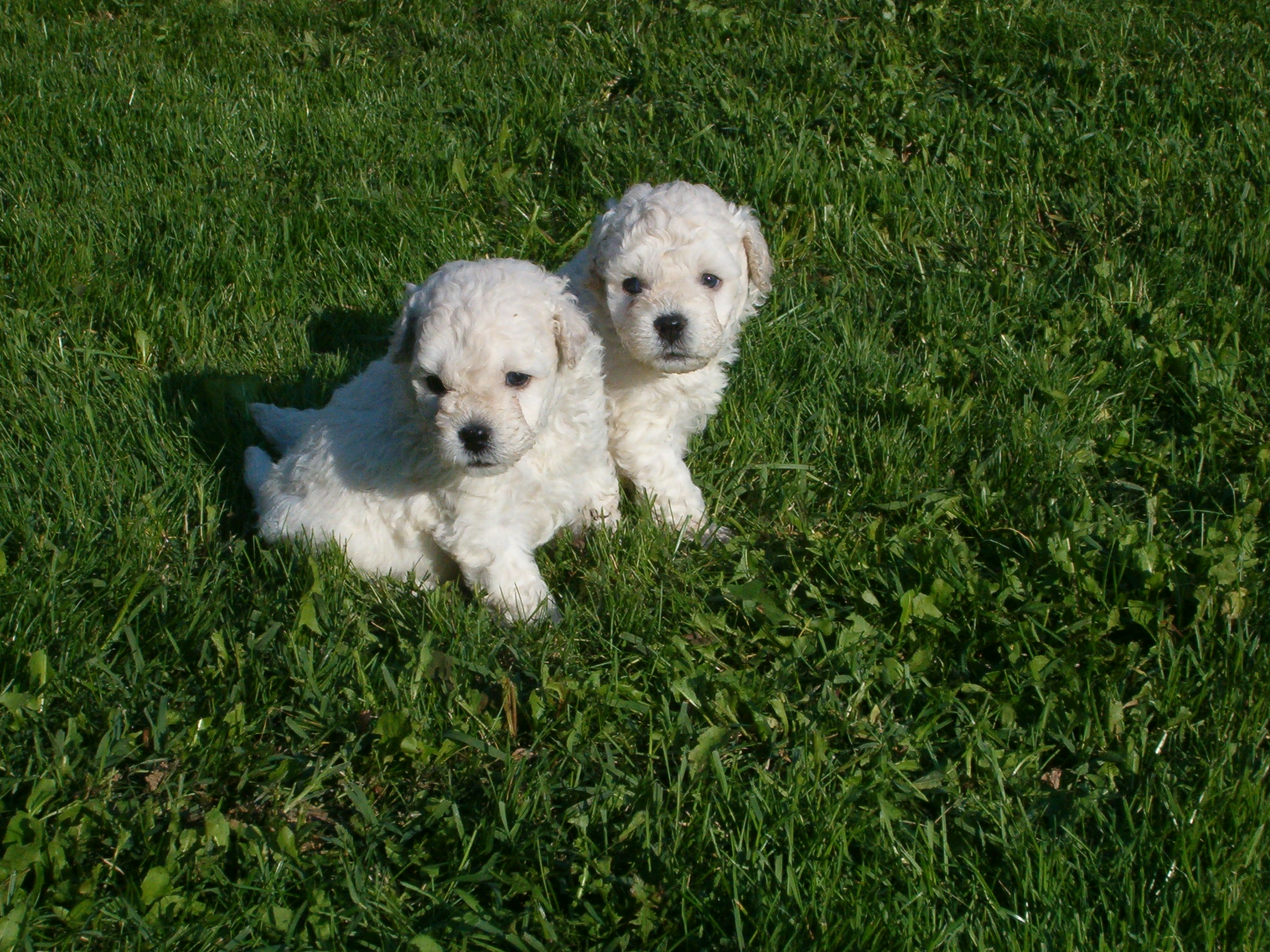 Picture about white puli puppies.